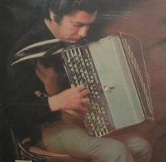 Raúl Barboza. Folk musician (chamamé). Argentina. Album "Tango", 1977.